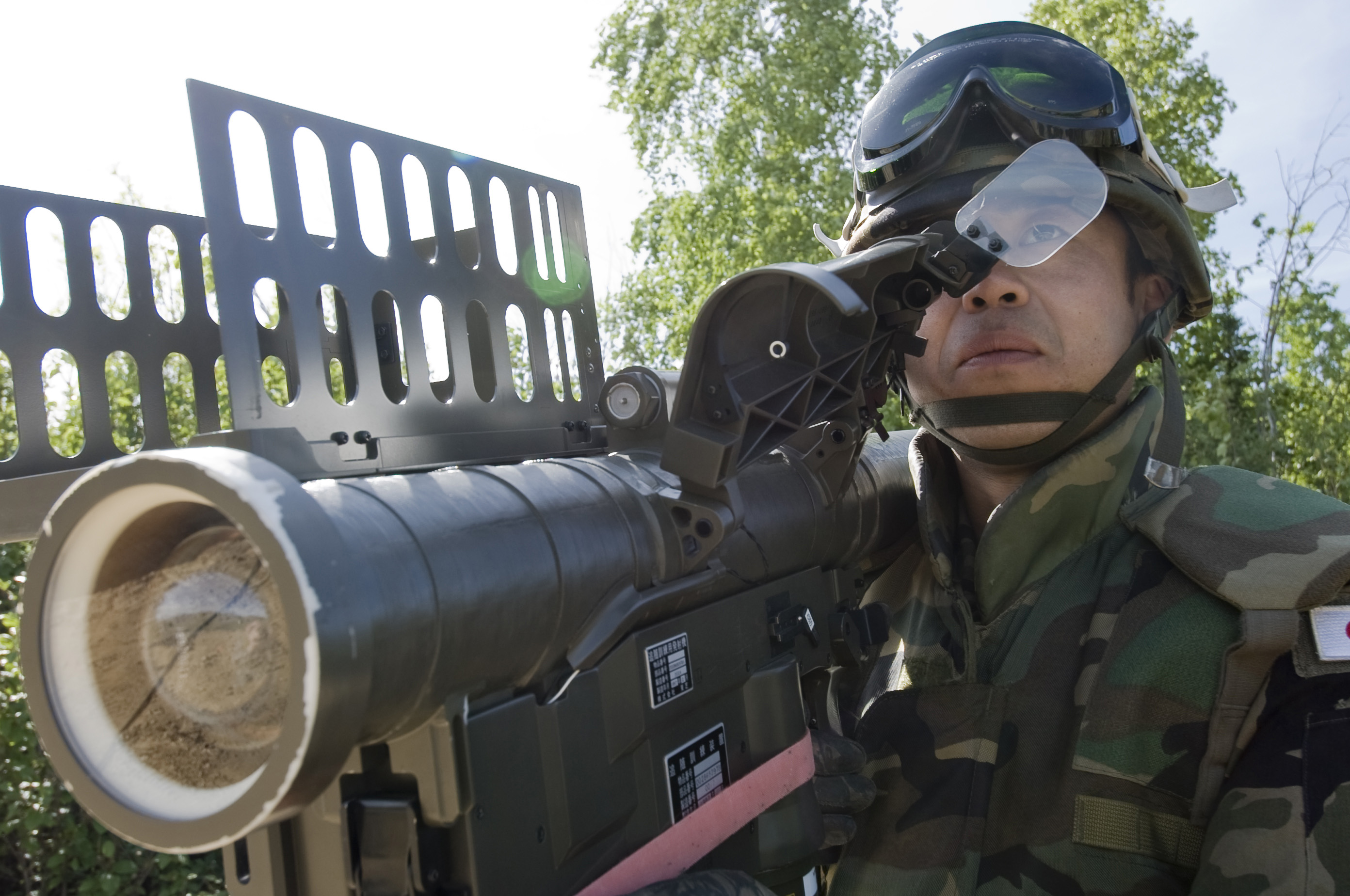 JASDF_Type91_SAM. 6/16/2008 - Staff Sgt. Masayuki Inomata operates a Type 91 Sam-2 Surface to Air missile launcher at enemy aircraft while his teammate Staff Sgt. Hiroshi Yamashita locates the target on the Pacific Alaskan Range Complex June 11, 2008 during RED FLAG-Alaska 08-3. During this exercise Japanese Forces are positioned in varies locations acting as a threat to blue forces aircraft. Both are missile operators assigned to the Japanese Air Self Defense Force. (U.S. Air Force Photo/Airman 1st Class Jonathan Snyder)